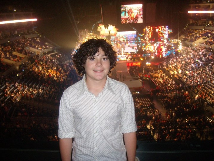 Kurt Doss Summerslam 2010 Los Angeles Staples Center